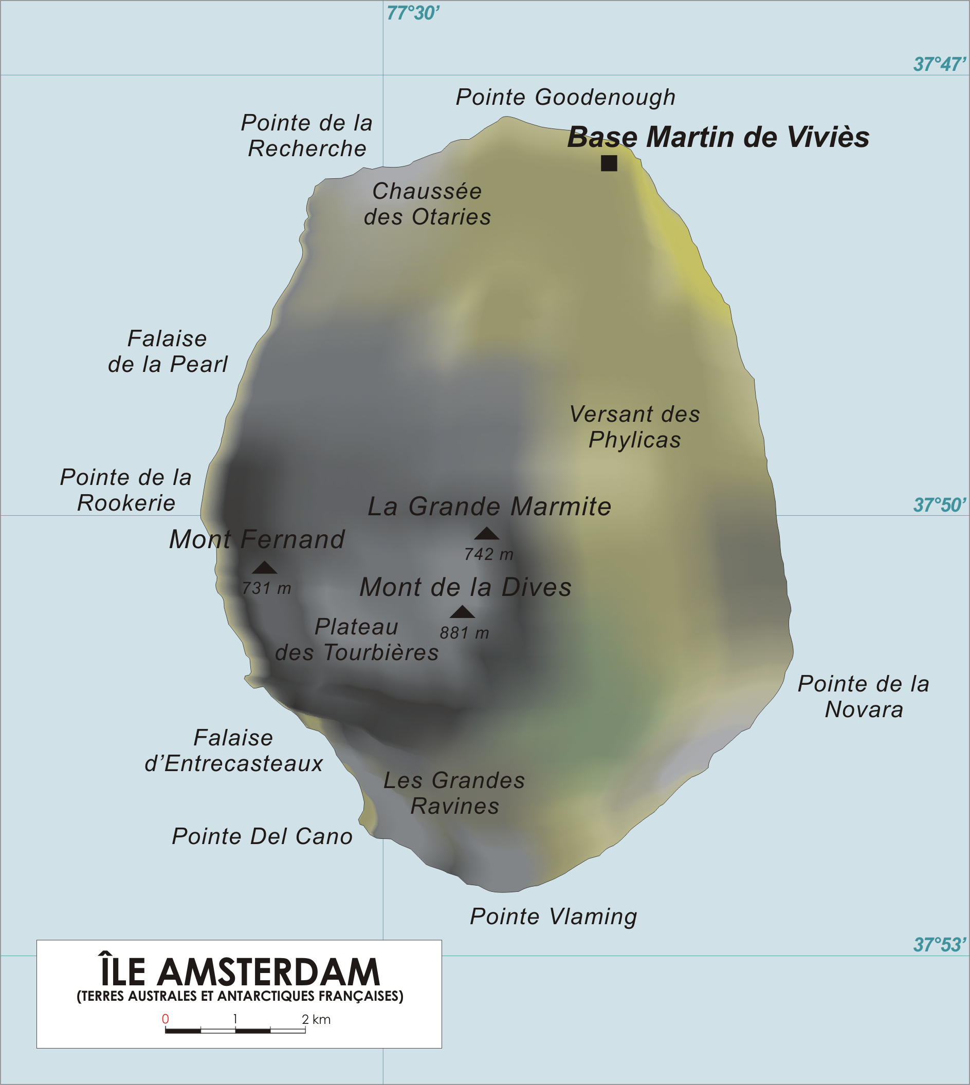 Map of Amsterdam Island, French Southern and Antarctic Territories.